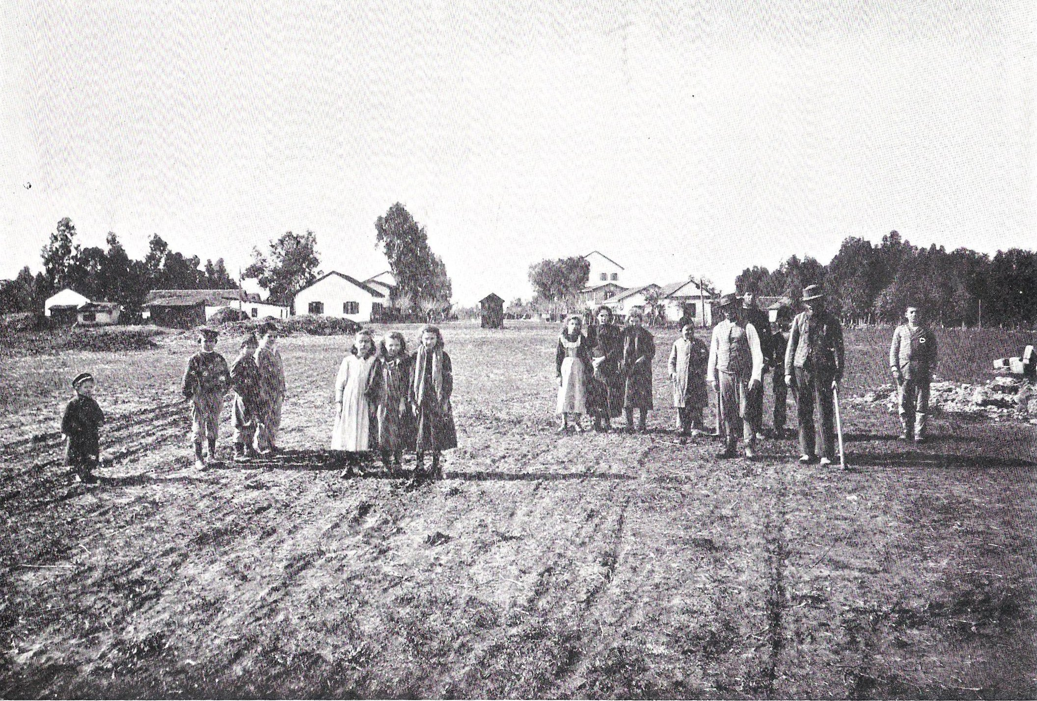 The picture are from old book (that was published in 1899), some of the picture are fro 1899, some are even older: This work or image is now in the public domain because its term of copyright has expired in Israel. According to Israel's copyright statute from 2007 (translation), a work is released to the public domain on 1 January of the 71st year after the author's death (paragraph 38 of the 2007 statute) with the following exceptions: A photograph taken on 24 May 2008 or earlier — the old British Mandate act applies, i.e. on 1 January of the 51st year after the creation of the photograph (paragraph 78(i) of the 2007 statute, and paragraph 21 of the old British Mandate act). If the copyrights are owned by the State, not acquired from a private person, and there is no special agreement between the State and the author — on 1 January of the 51st year after the creation of the work (paragraphs 36 and 42 in the 2007 statute). See also category: PD Israel & British Mandate. For the scan and the the crop: The name of the book (in hebrew) is: "מראה ארץ ישראל והמושבות" by (in hebrew): "ישעיהו ראפאלוביטש ושותפו משה אליהו זאכס" Mazkeret Batya